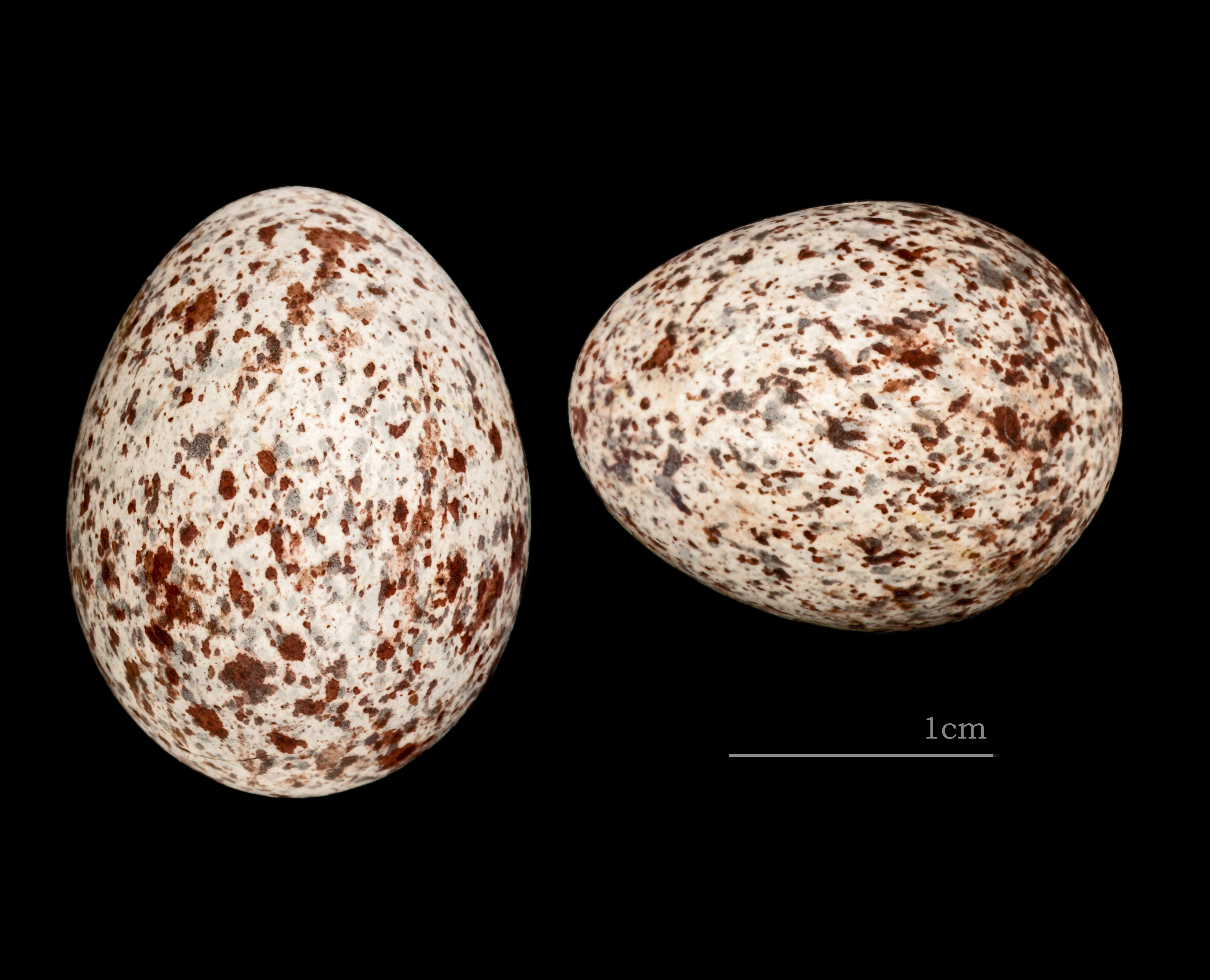 Egg of Common Bulbul Collection of René de Naurois / Jacques Perrin de Brichambaut.